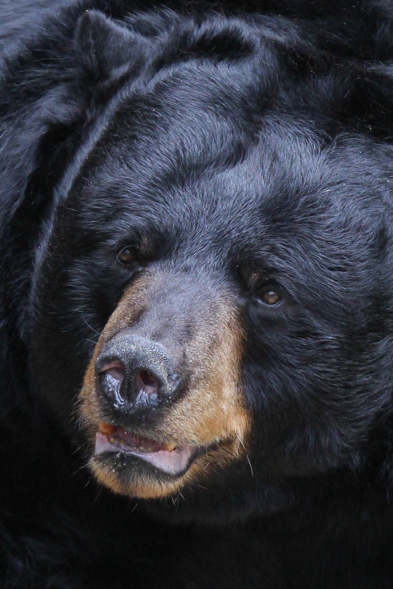 Black Bear (Ursus americanus) at the Cincinnati Zoo. This photo was taken on April 11, 2013 using a Canon EOS 7D.